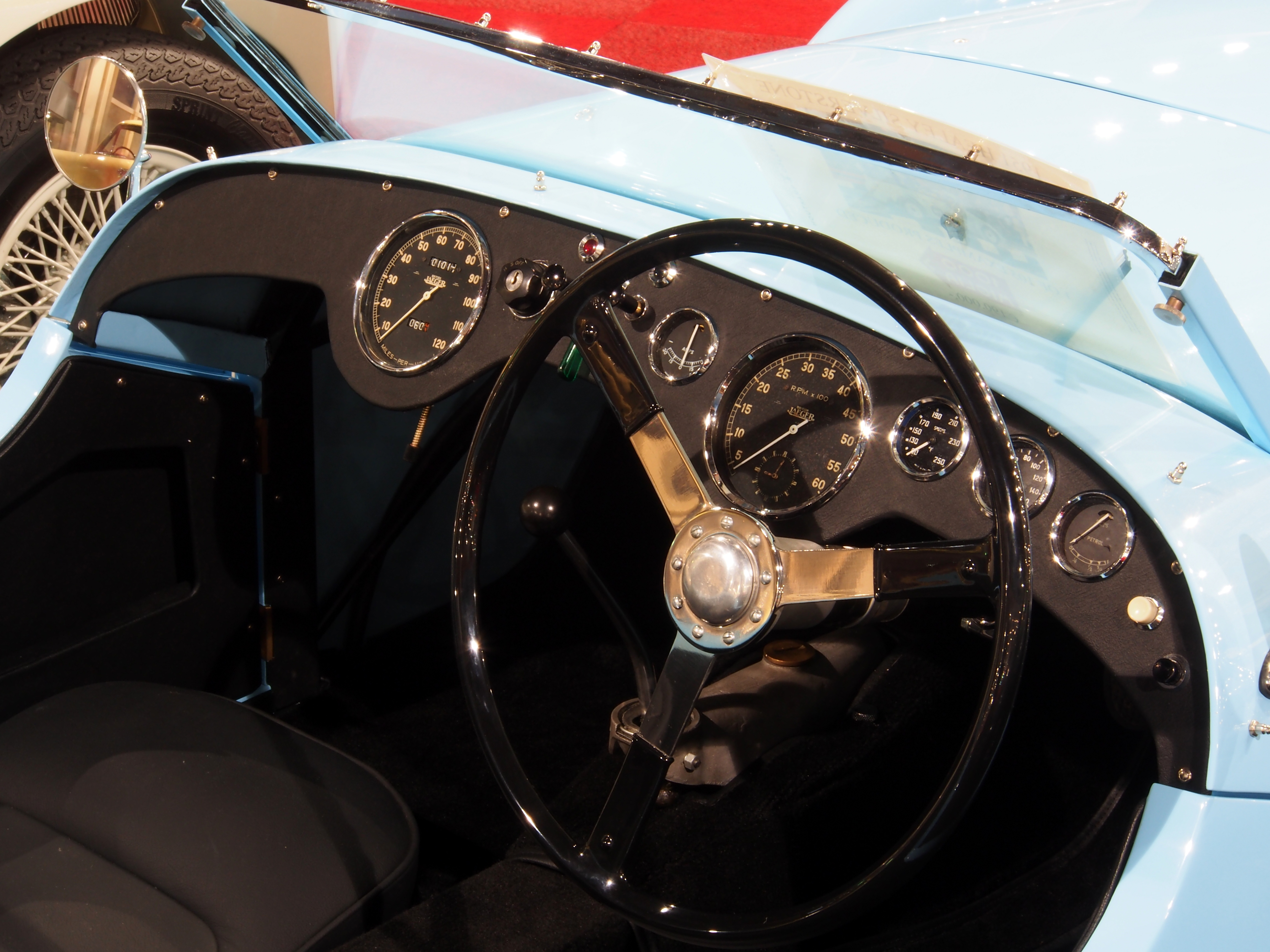 Photographed in Maastricht, The Netherlands.